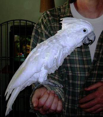 Cacatua alba being carried.